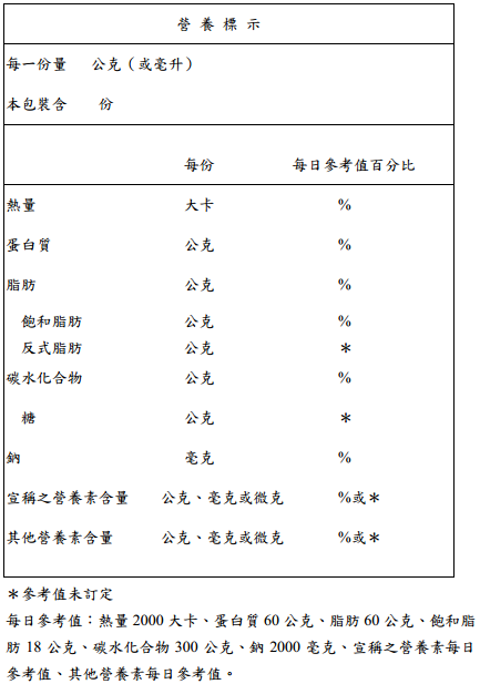 Nutrition facts label format 1-3-1 of Taiwan